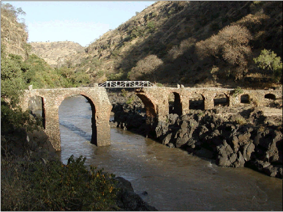 One of only two stone bridges built over the Blue Nile during the reign of Emporer Fasilides in approximately 1660. Broken during World War II by Ethiopian patriot Colonel Tamrit to help fend off the advance of Musulinni's armies.